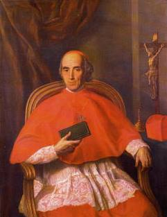 Ferdinando Maria Pignatelli, cardinal of the Roman Catholic Church and archbishop of Palermo